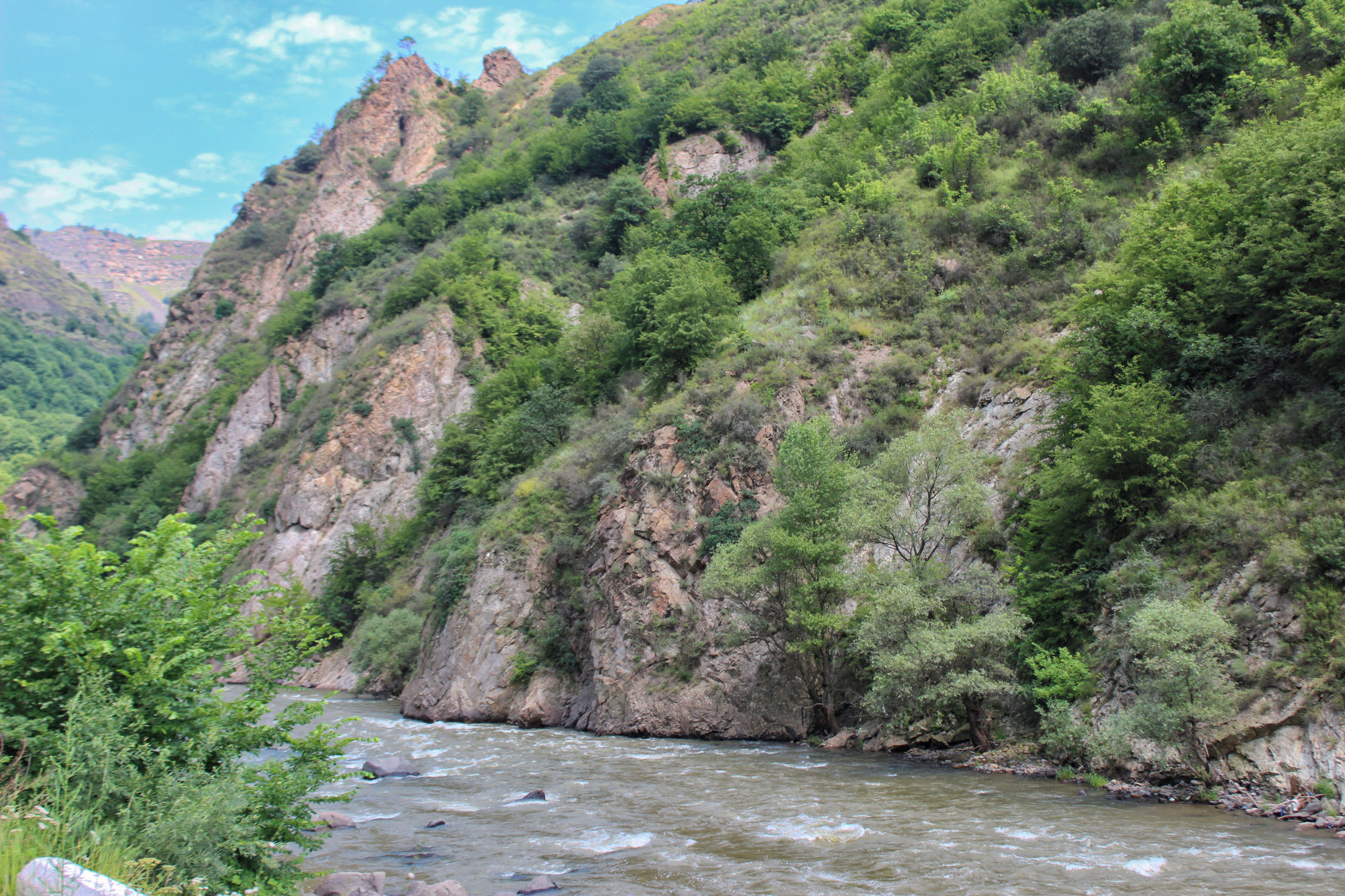 Debed river, Lori province